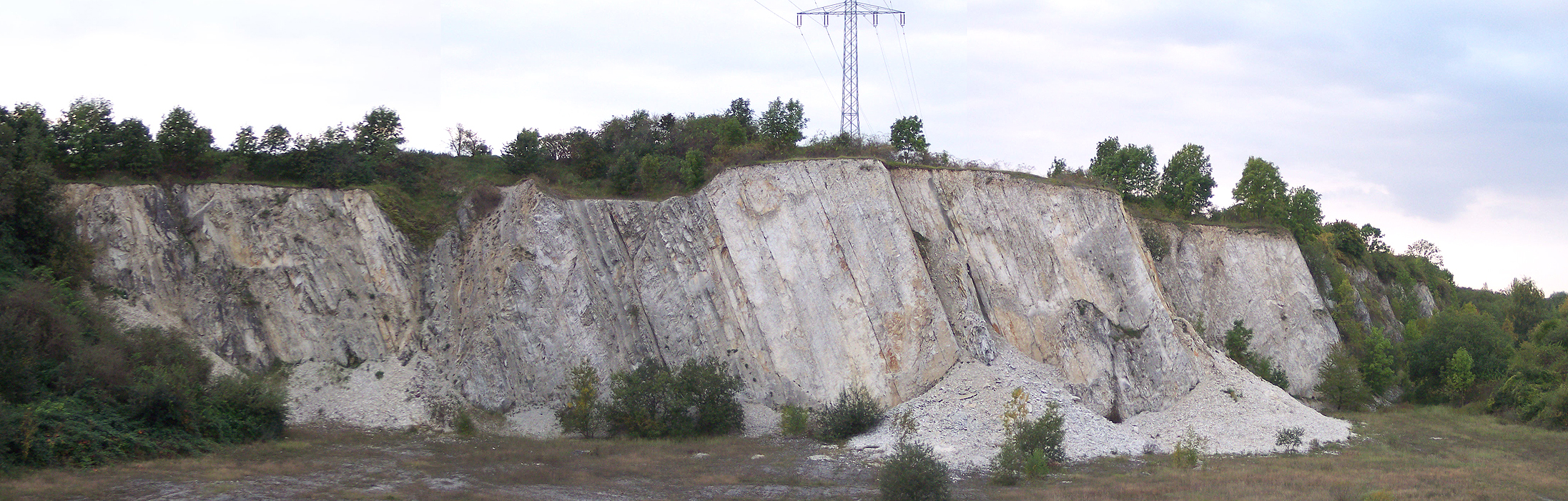 Western face of Salzgitter-Salder chalk quarry (Lower Saxony, Germany), exposing beds of Middle and Upper Turonian and Lower Coniacian (i.e. Upper Cretaceous) age. The beds are steeply tilted due to their position at the northern flank of the Salzgitter salt anticline.